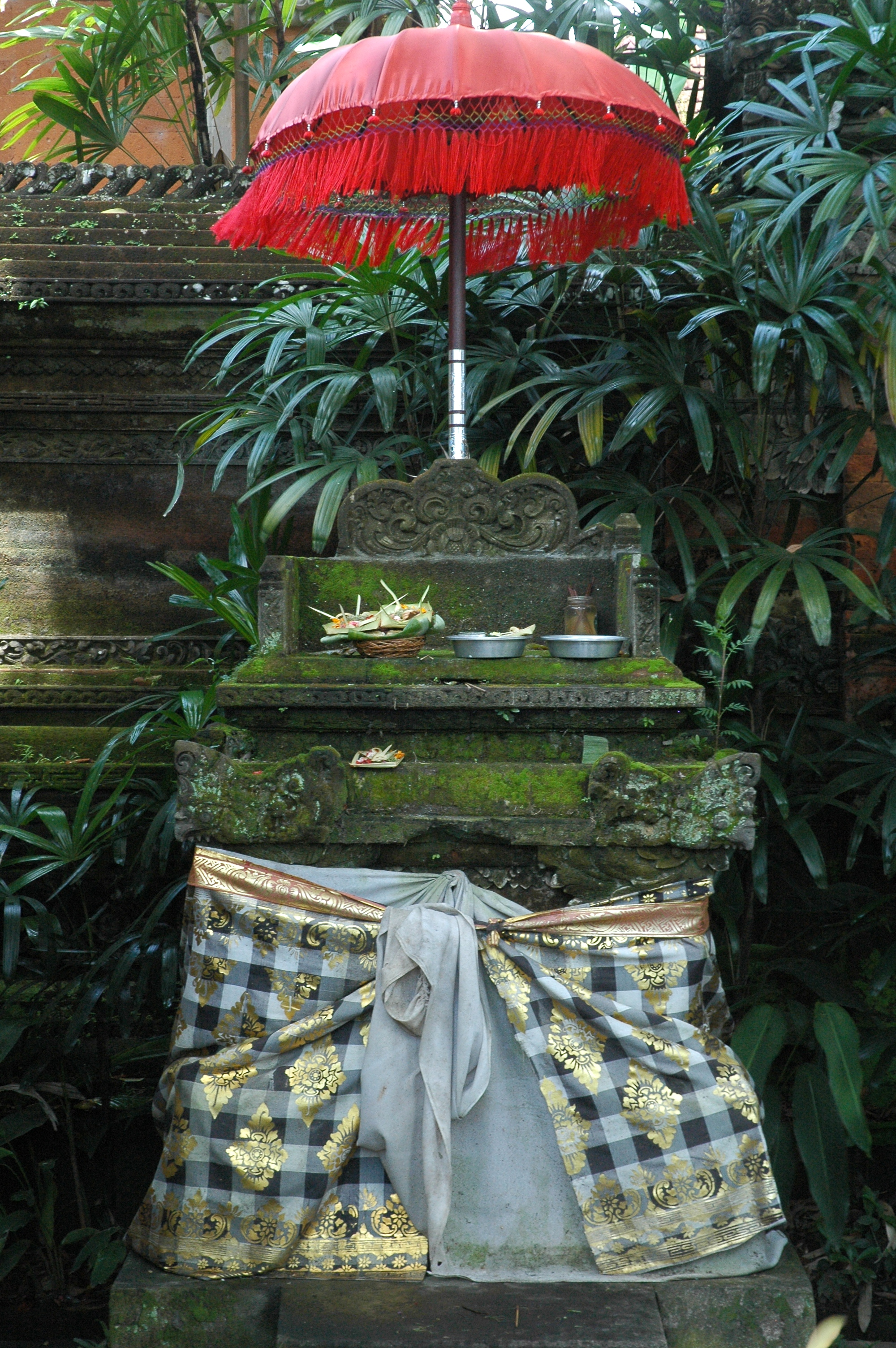 Empty throne to Sanghyang Widi Wasa (Acintya), Puri Saren. With ceremonial tedung umbrella, Ubud.